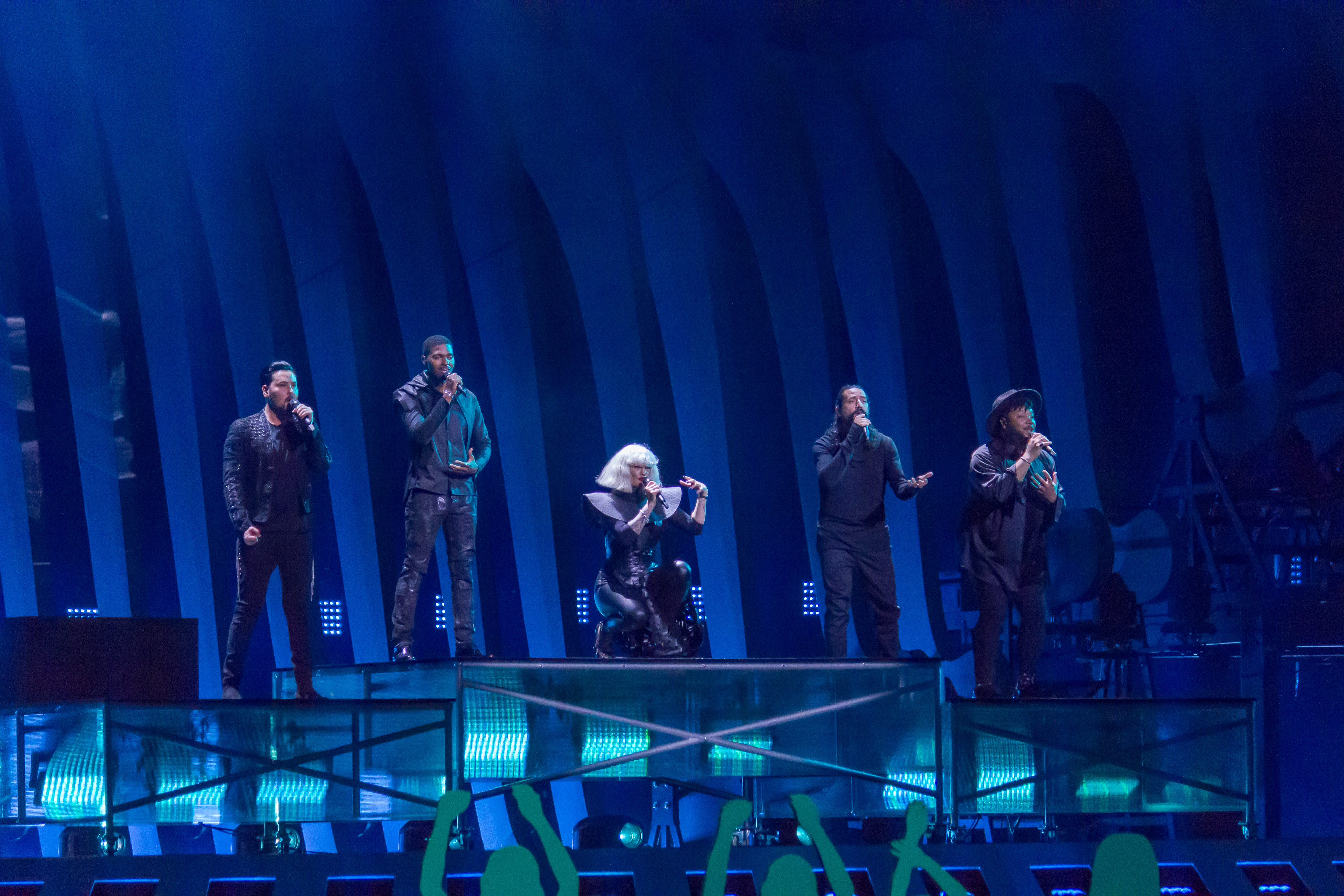 EQUINOX representing Bulgaria with the song "Bones" during a rehearsal before the first semi final of the Eurovision Song Contest 2018 in Lisbon.